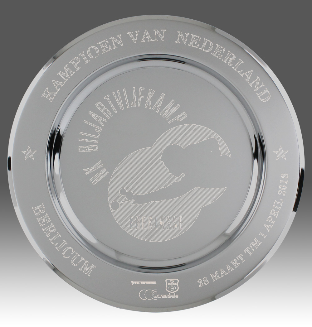 De kampioensschaal 2018